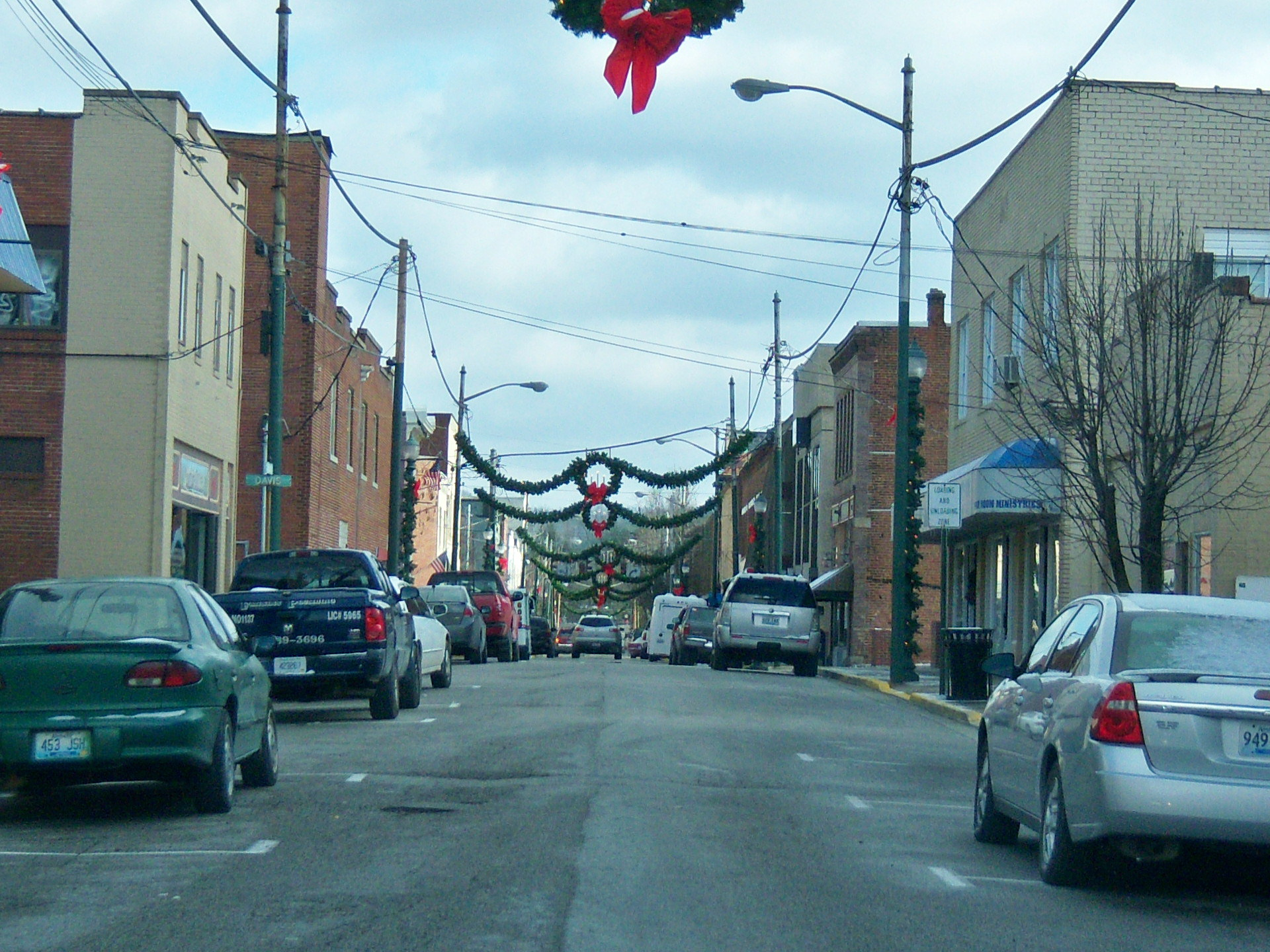 Paintsville's Main Street decorated for Christmas.